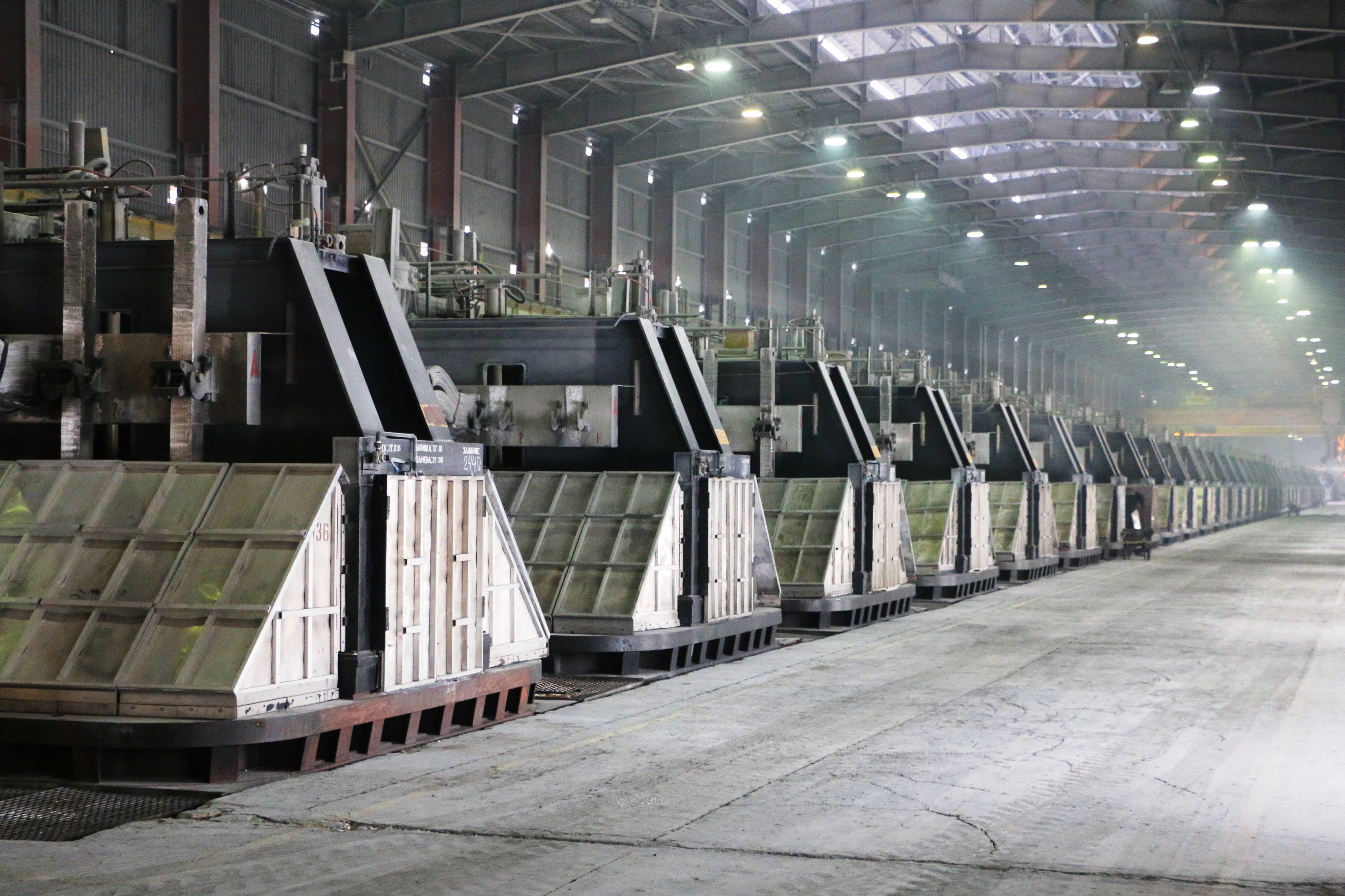 Kazakhstan Aluminium Smelter